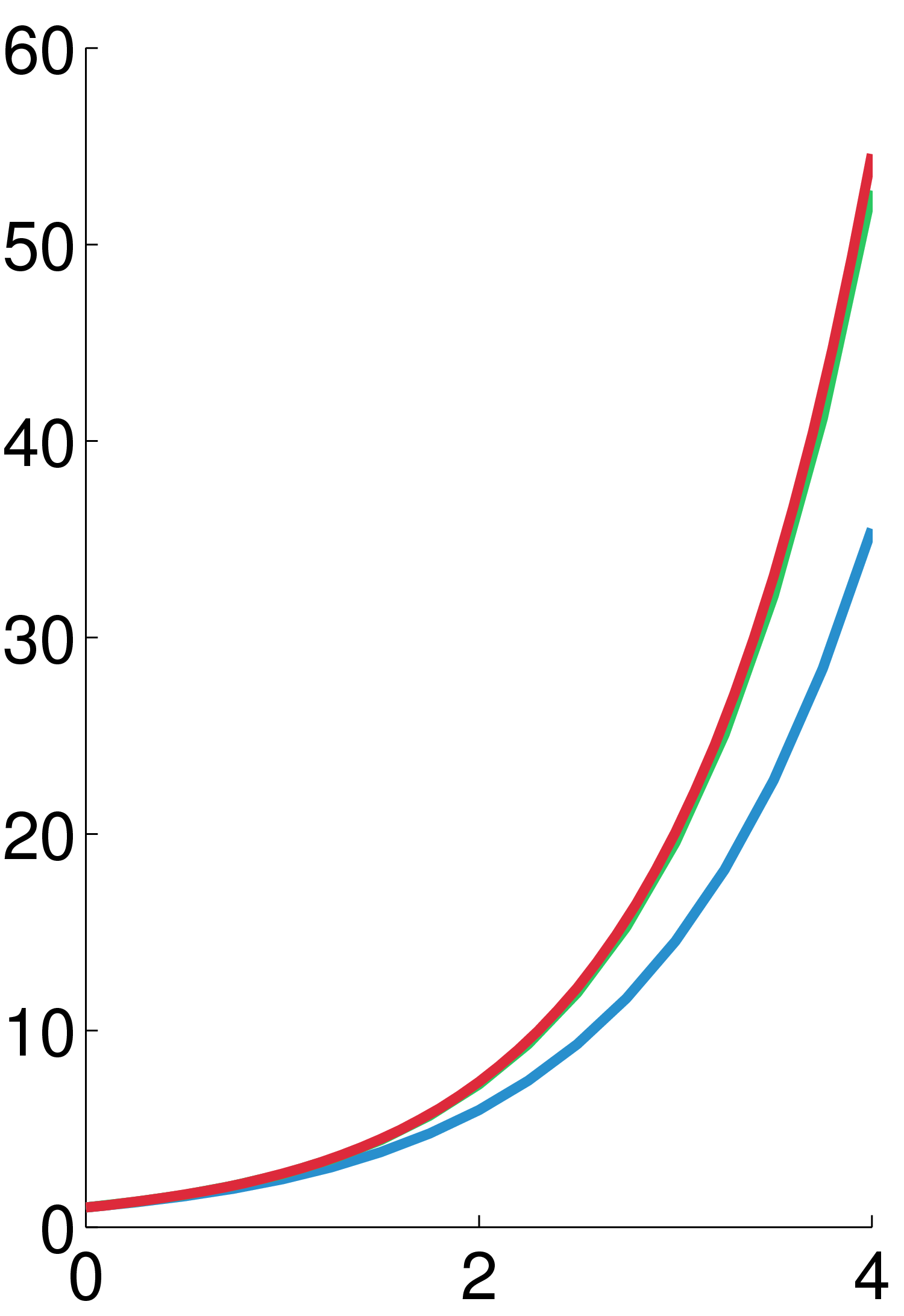 Illustration of Numerical ordinary differential equations